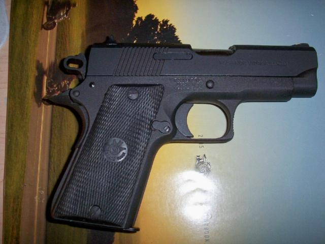 Pistolet Mini-Max Source borland